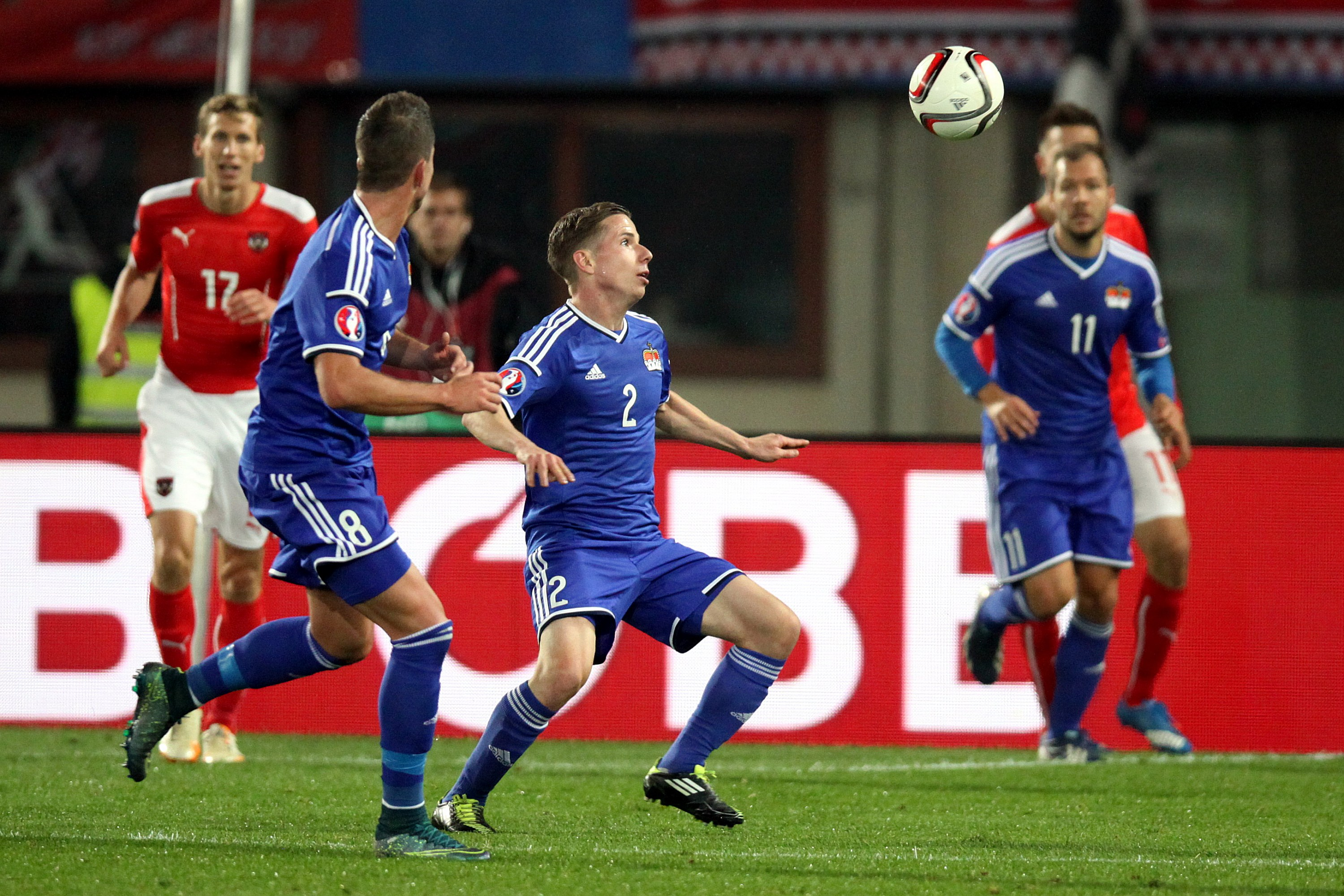 UEFA Euro 2016 qualifying, Group G – Austria (red shirts) vs. Liechtenstein (blue shirts) 3–0 (1–0) on 2015-10-12 in Ernst-Happel-Stadion, Vienna – The photo shows (from left to right) Florian Klein, Sandro Wieser (# 8), Daniel Brändle (# 2) and Franz Burgmeier (# 11).